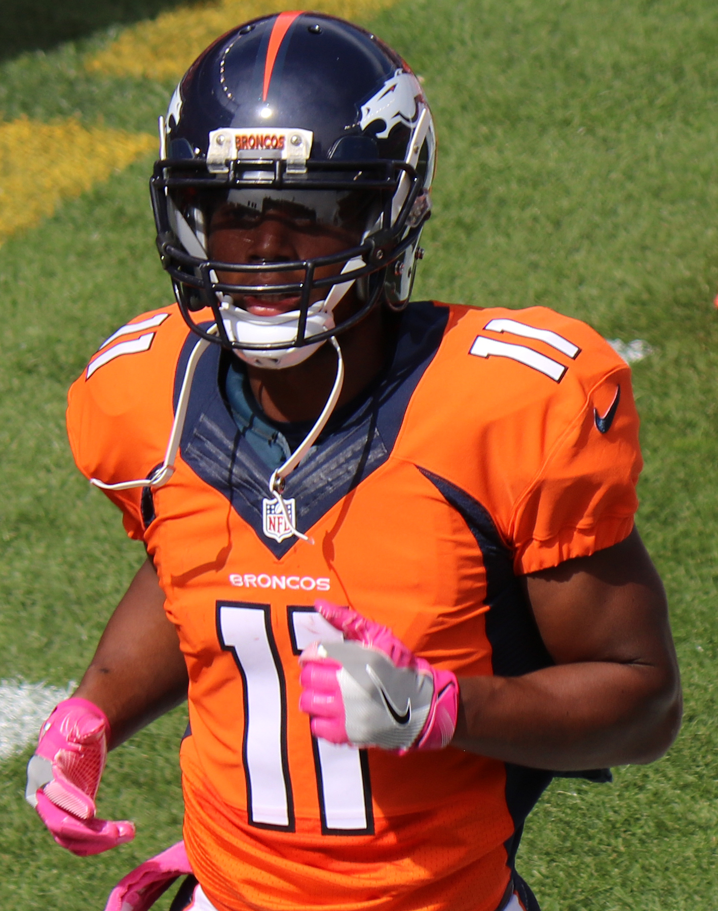 Jordan Norwood, a player on the National Football League.